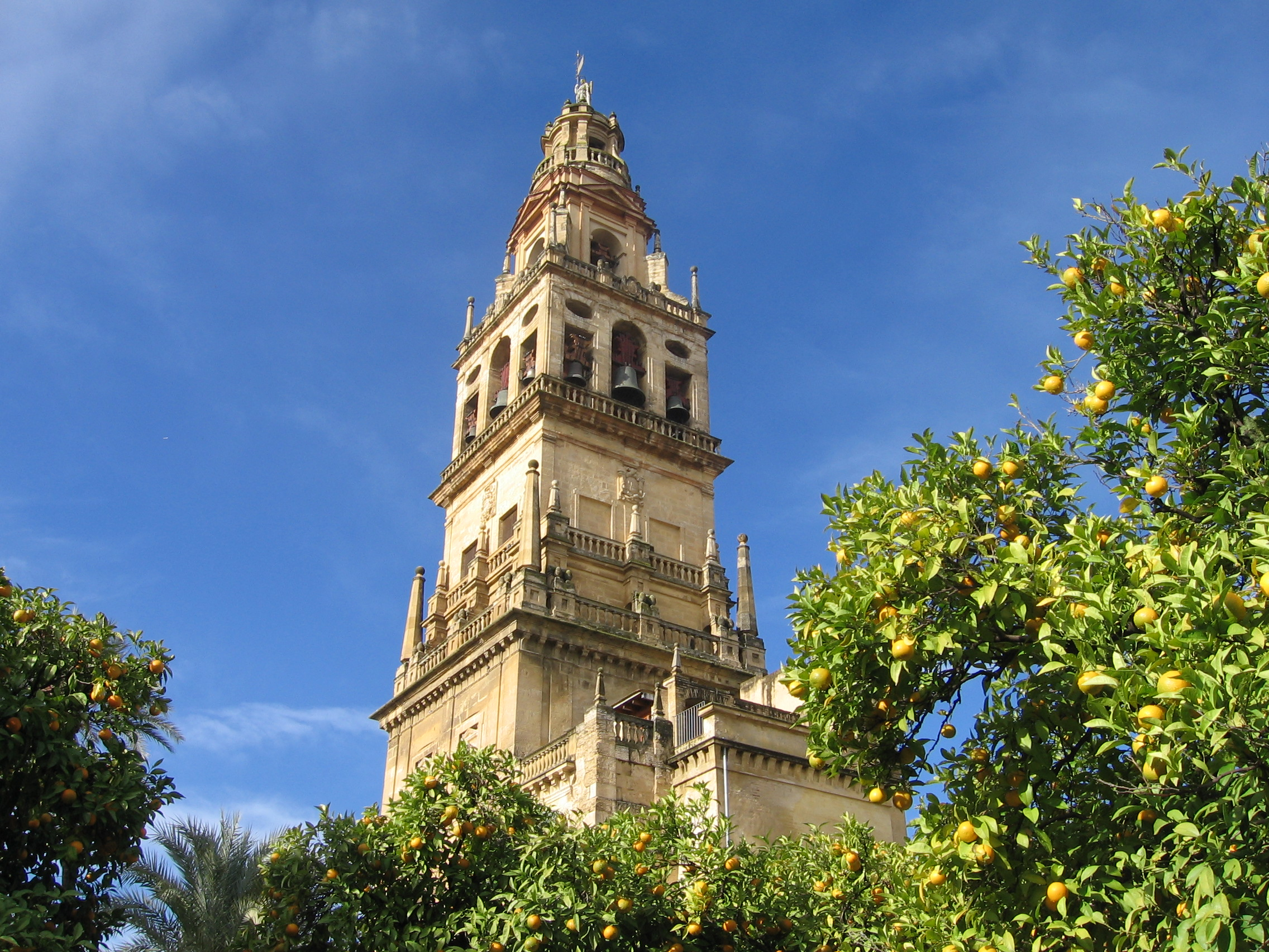 Tower of the cathedral in Cordoba, built over the former minaret, taken in the yard of oranges